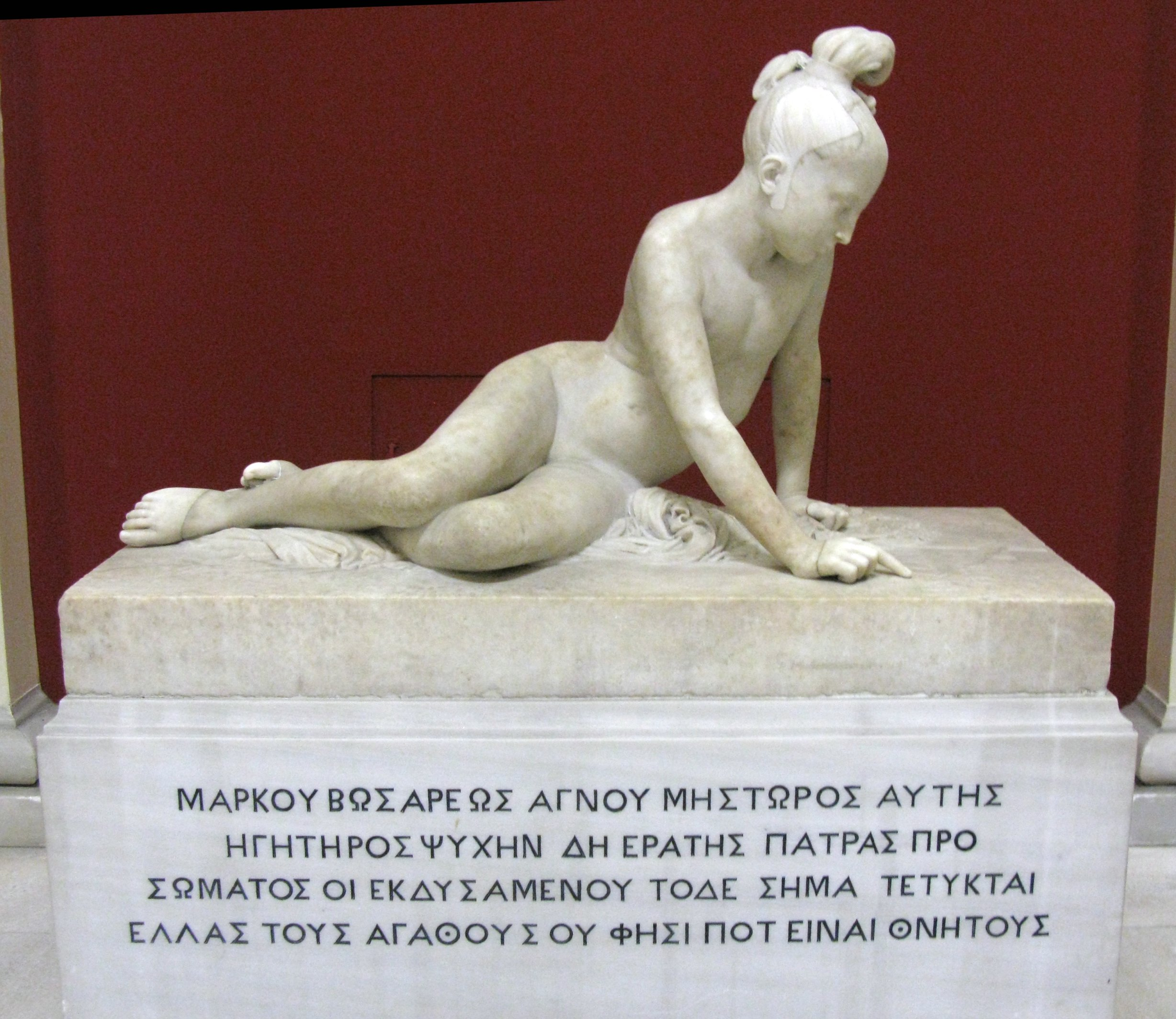 The monument was created by the French sculptor Pierre Jean David ("David d'Angers") to the Greek liberator consisting of a young female figure called Reviving Greece. National Historical Museum, Athens, Greece --- Τάφος του Μάρκο Μπότσαρη. Έργο του Γάλλου Pierre Jean David (ο επονομαζόμενος David d’Angers), περ. 1830. Εθνικό Ιστορικό Μουσείο. Αθήνα.